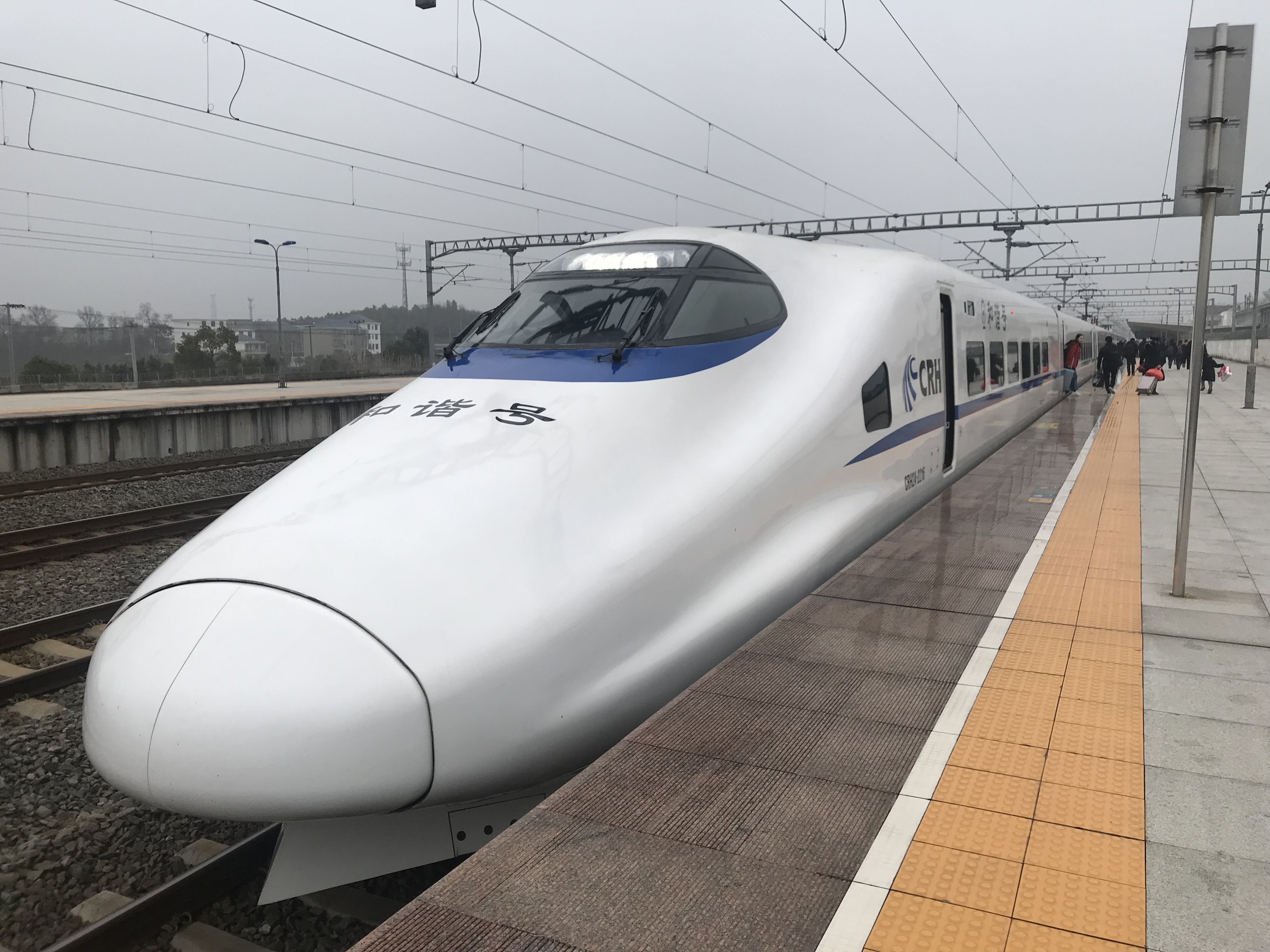 CRH2A-2216 operating as D2106 from Nanchang to Quzhou